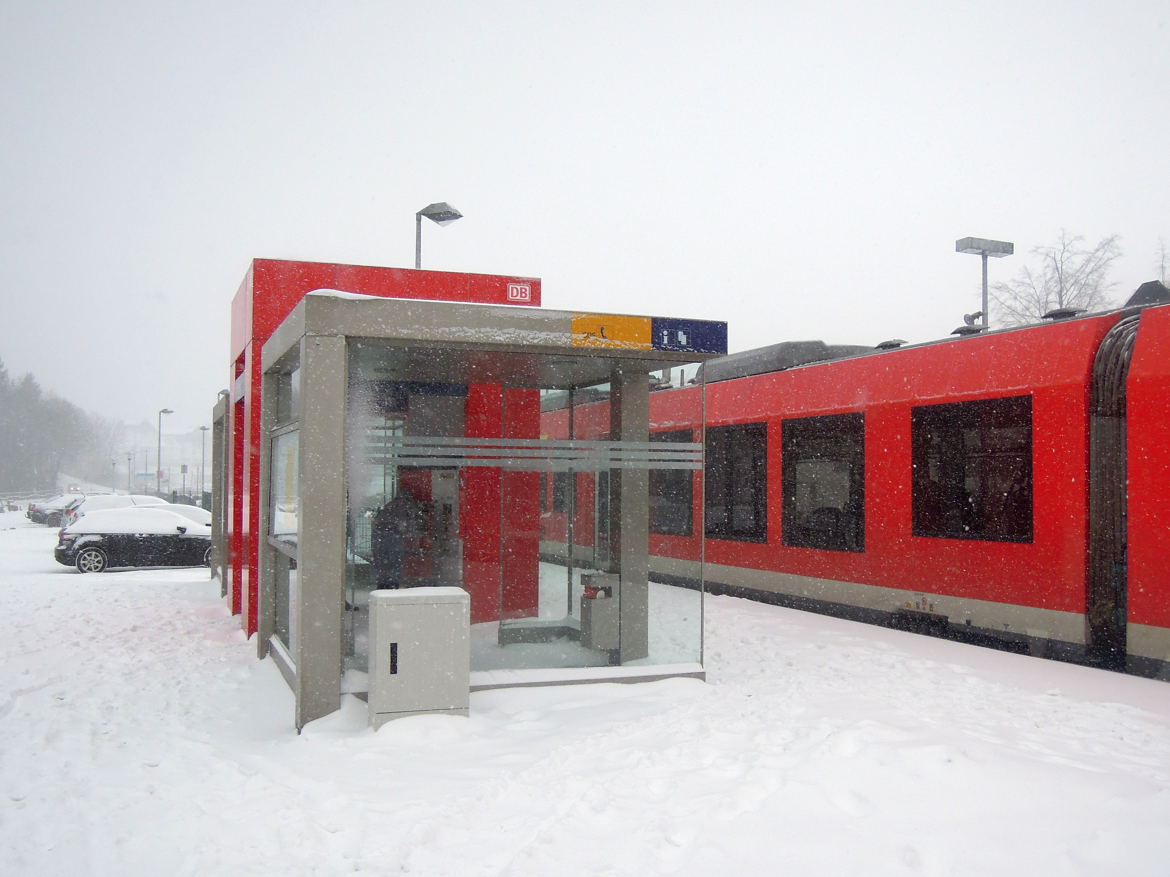 The new railway station of Winterberg in the snow.